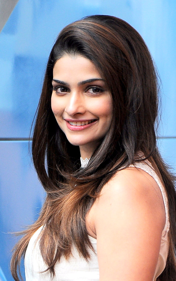 Cast of 'Bol Bachchan' interview at Mehboob studio Prachi Desai